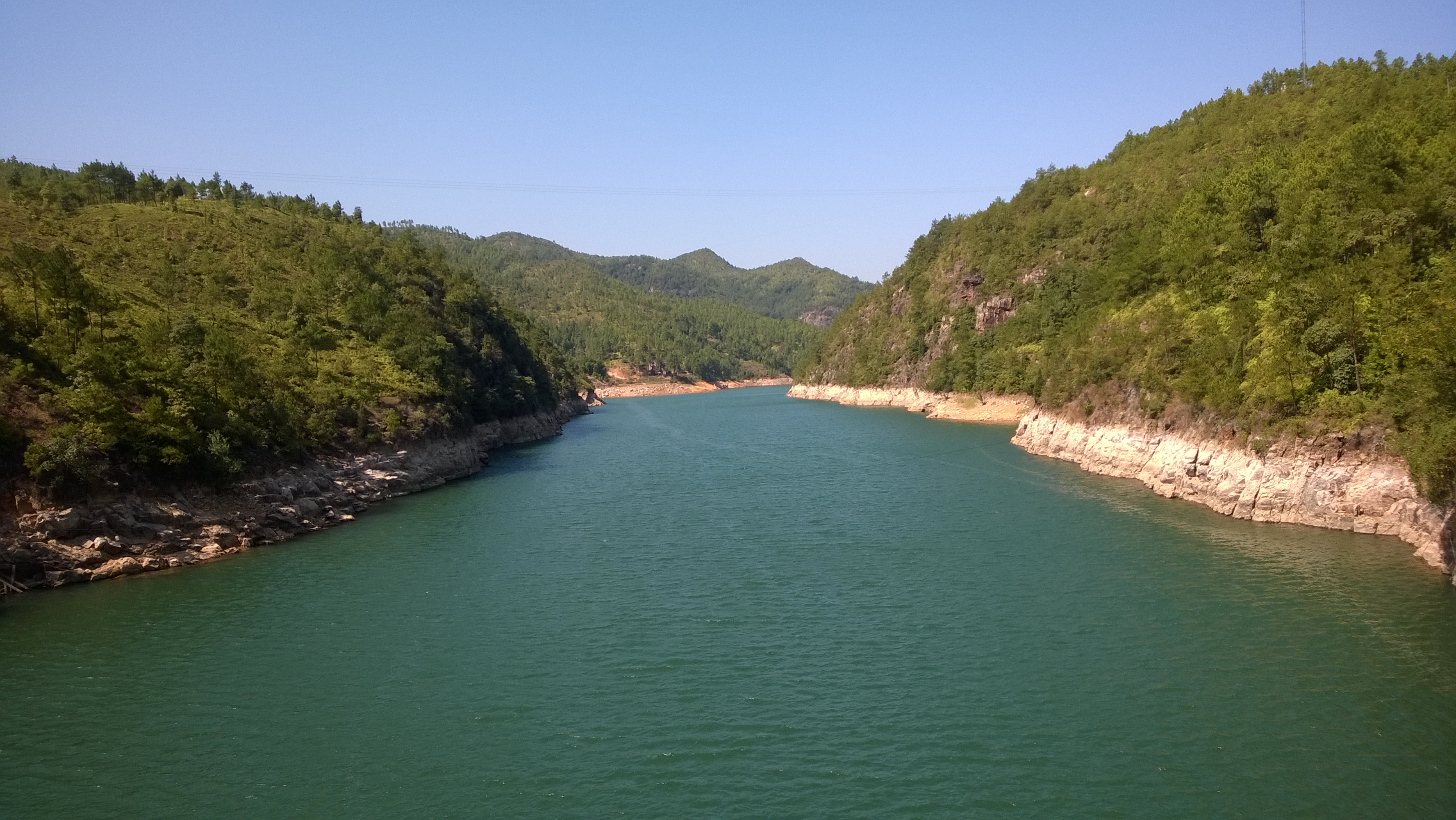 The water body in front of the dam of Changgang Reservoir, at Changgang Township, Xingguo County, Ganzhou City, Jiangxi Province.